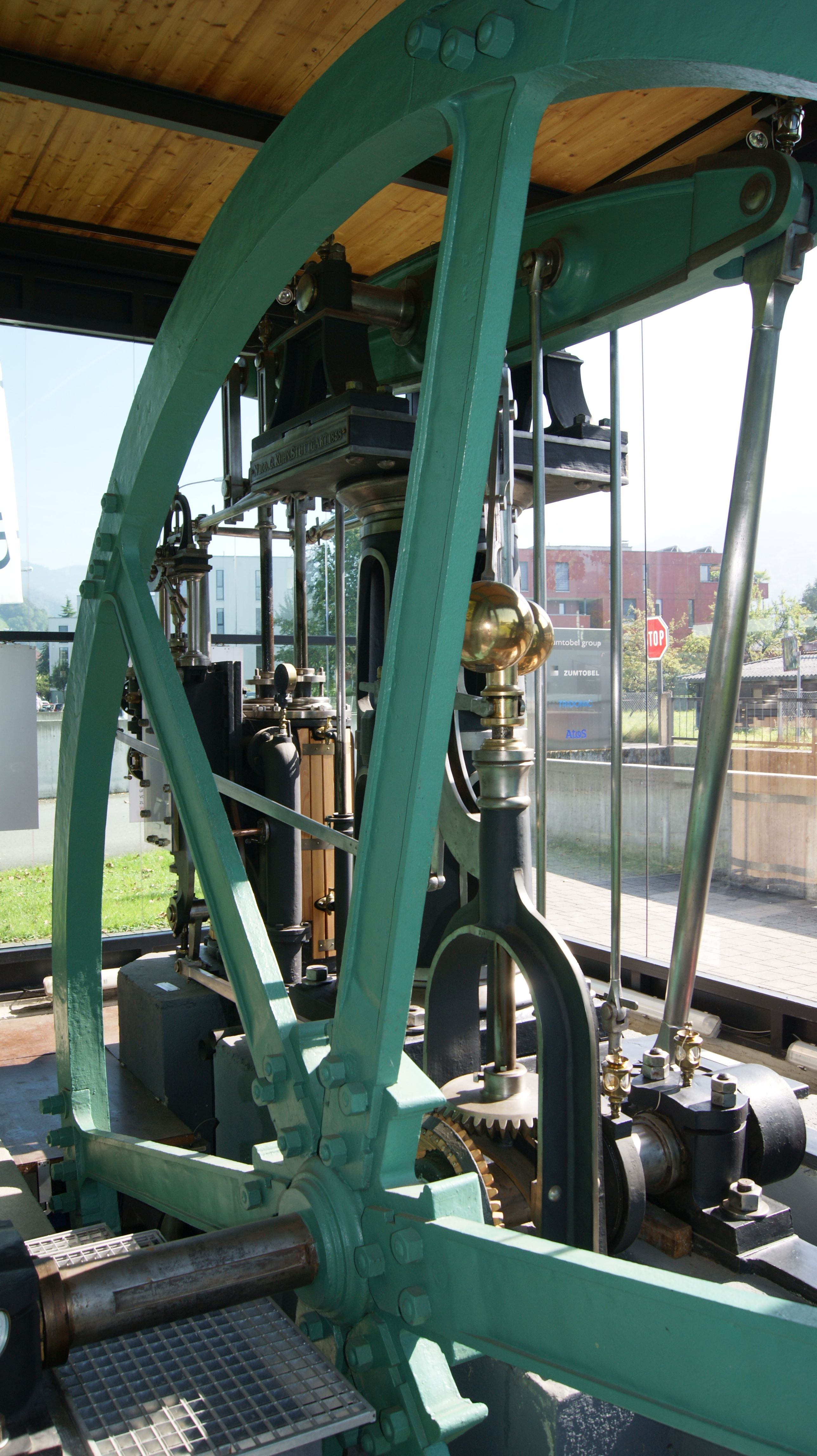 Steam engine from G. Kuhn in the former factory F.M. Rhomberg in Dornbirn in 1858